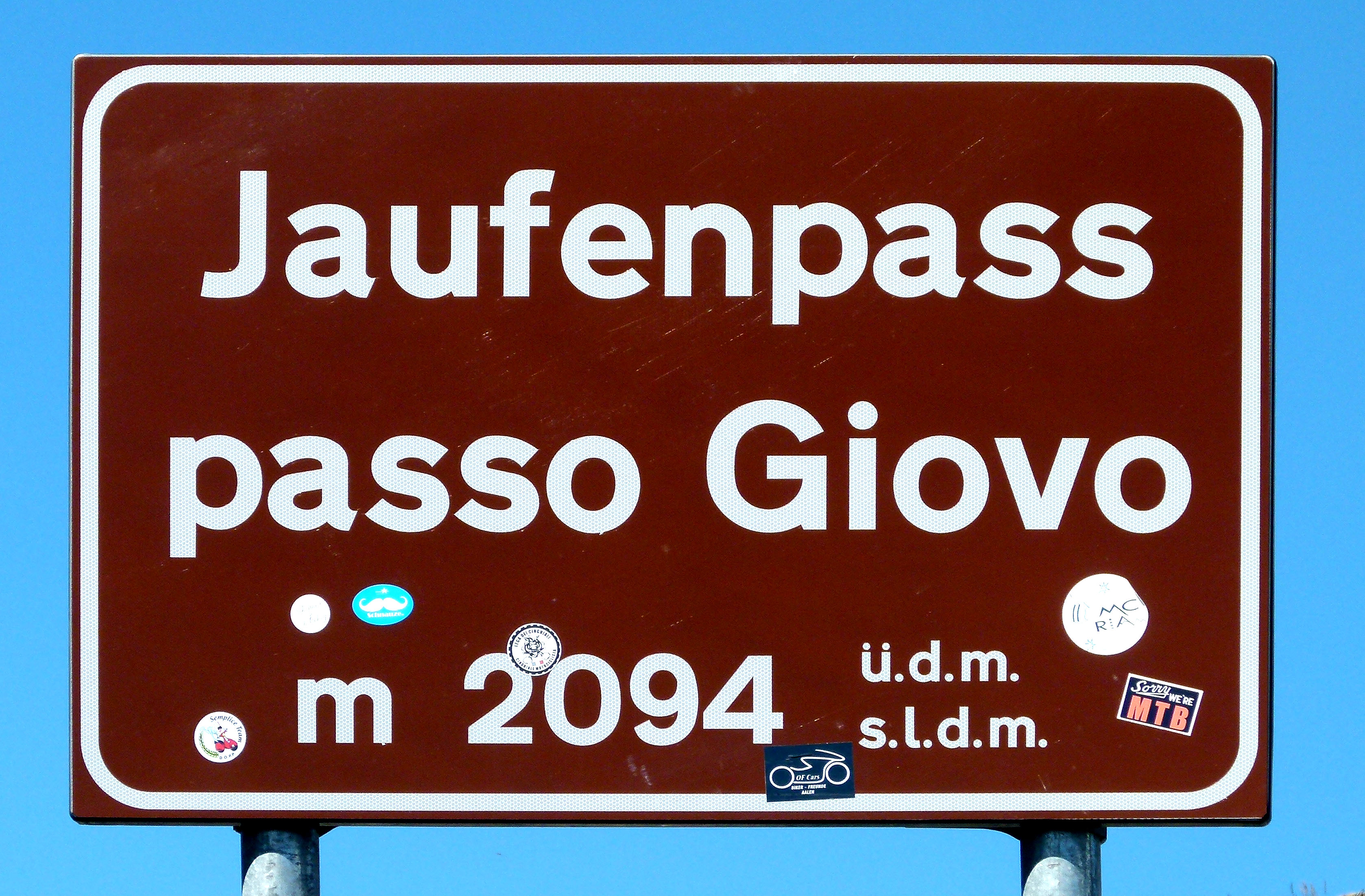 Jaufenpass, Italy